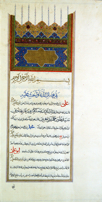 First page from al-kafi manuscript